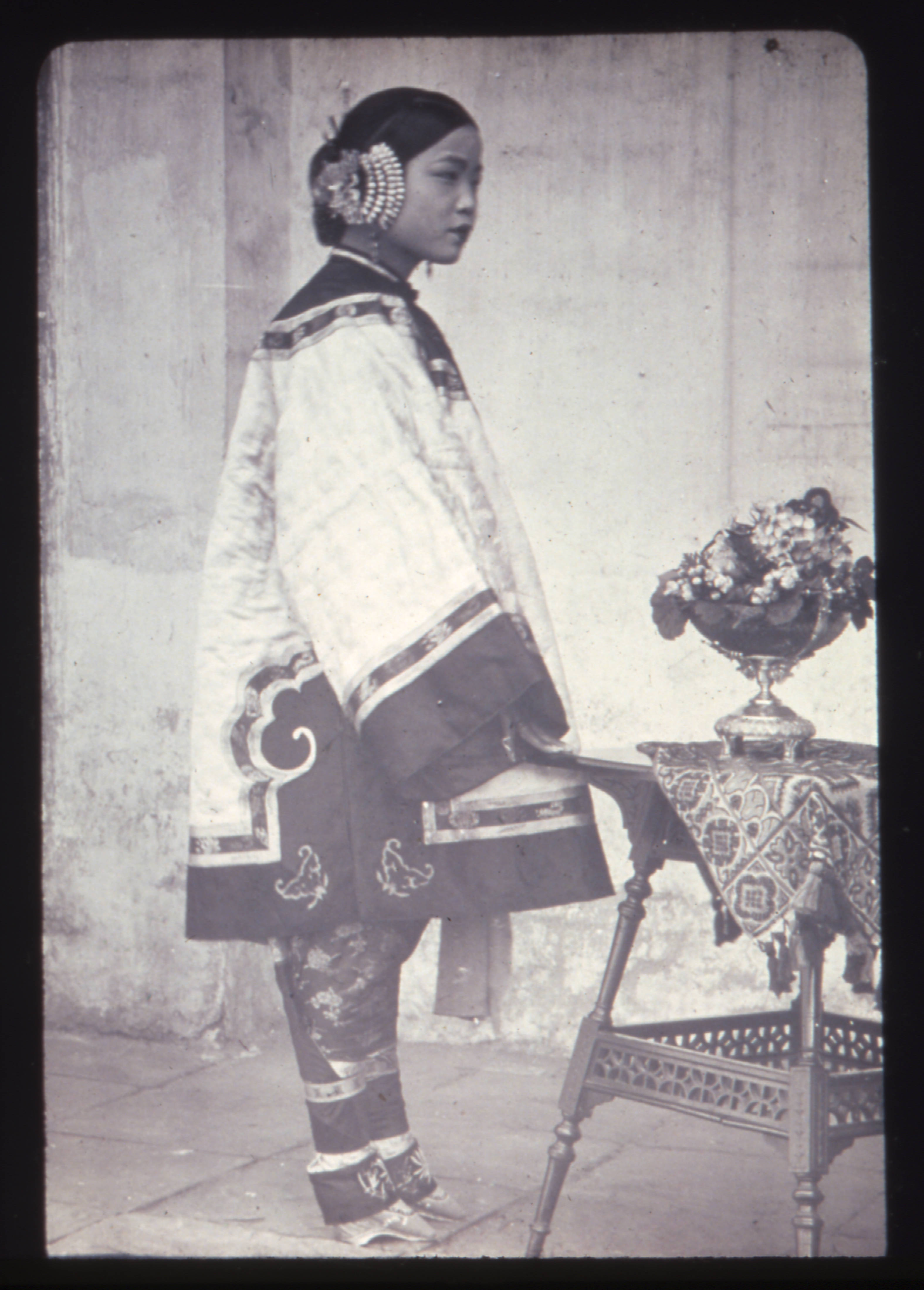 A dancing girl, Changde, Hunan, China, ca.1900-1919 "A dancing girl. Her costume is pre-Revolutionary, but the table and all on it is obviously 'foreign."; Captions for this set of lantern slides from the papers of Oliver and Jennie Logan, American Presbyterian missionaries in Hunan, were provided by their daughter Elsa. Subject (aat): portraits Photographer: Unidentified Filename: IMP-YDS-RG008-358-0008-0015 Geographic subject: Hunan; China Subject (unesco): Customs and traditions; Fashions; Women Part of collection: International Mission Photography Archive, ca.1860-ca.1960 Type: images Part of subcollection: Photographs from the Yale Divinity School Library, New Haven, Connecticut, ca.1880-1950 Part of repository: Yale Divinity Library Special Collections Repository name: Yale University. Divinity School. Day Missions Library Format: lantern slides Archival file: impa_Volume289/IMP-YDS-RG008-358-0008-0015.tiff Repository address: Yale University Divinity School Library, 409 Prospect Street, New Haven, CT 06511 Part of series: Oliver and Jennie Logan Papers Repository Date created: 1900/1919 Publisher (of the digital version): University of Southern California. Libraries Format (aat): photographs Legacy record ID: impa-m66279 Access conditions: Coverage date: 1900/1919